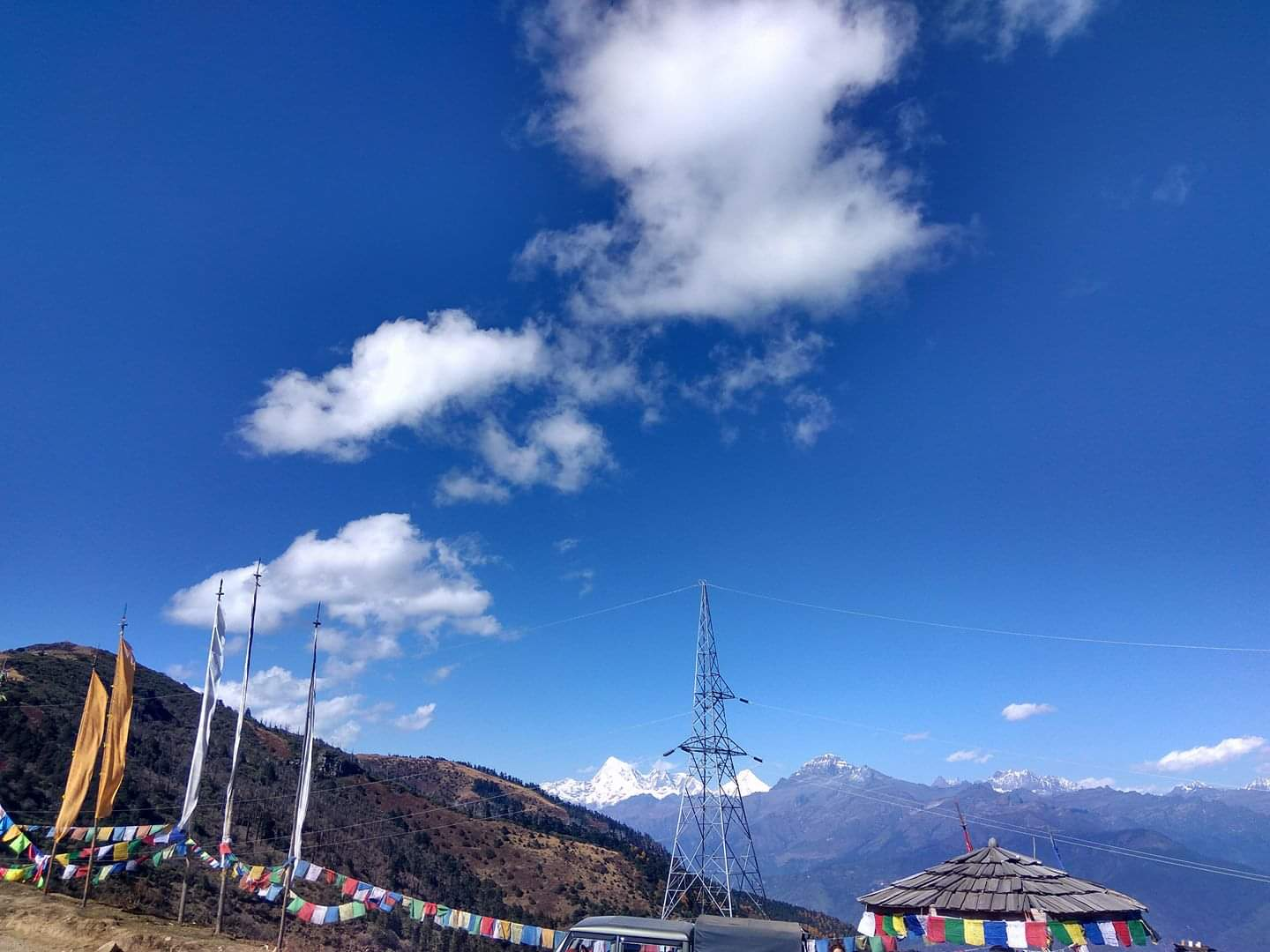 Fair use is allowed under appropriate attribution.